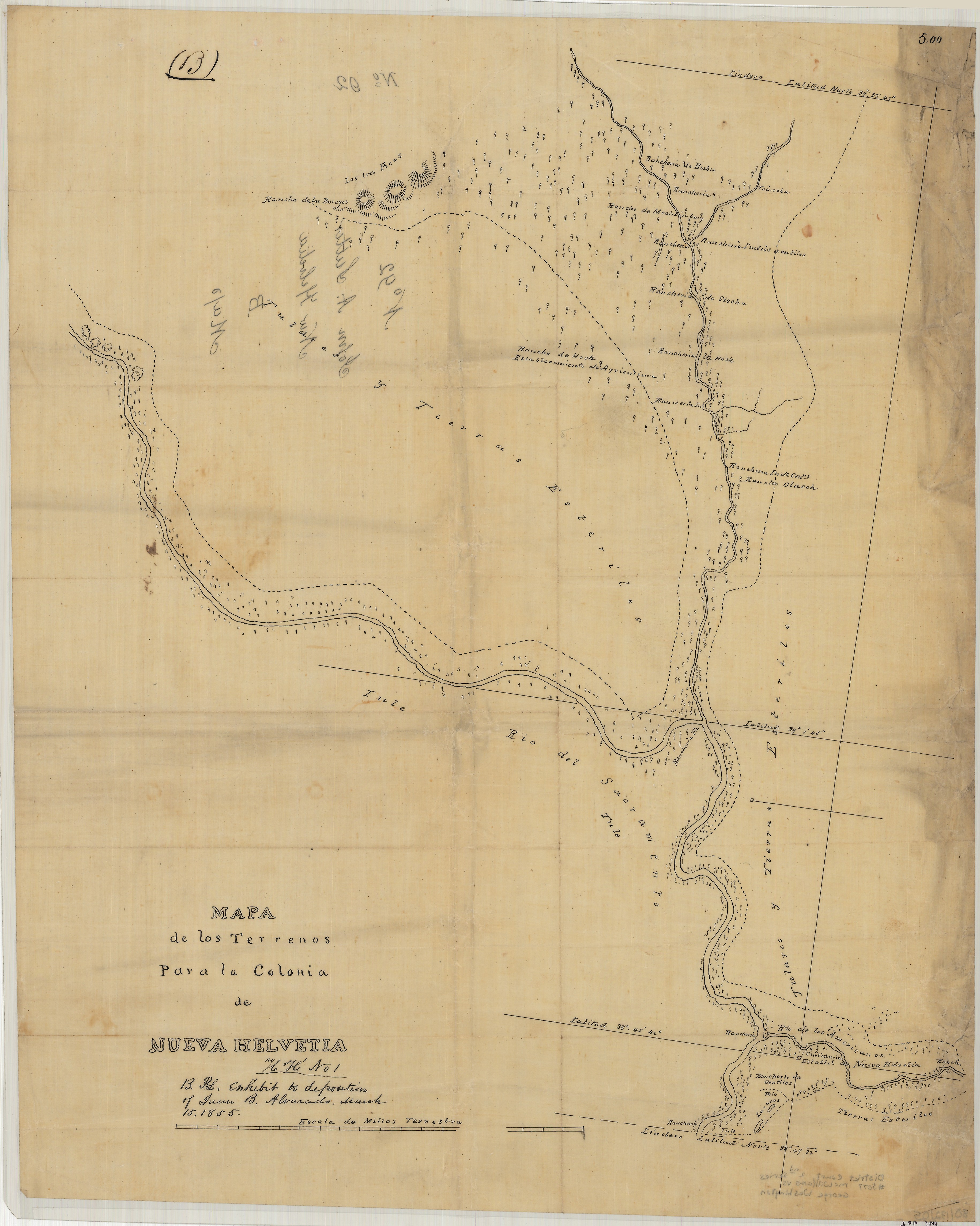 Map of the territory of Rancho New Helvetia in northern California